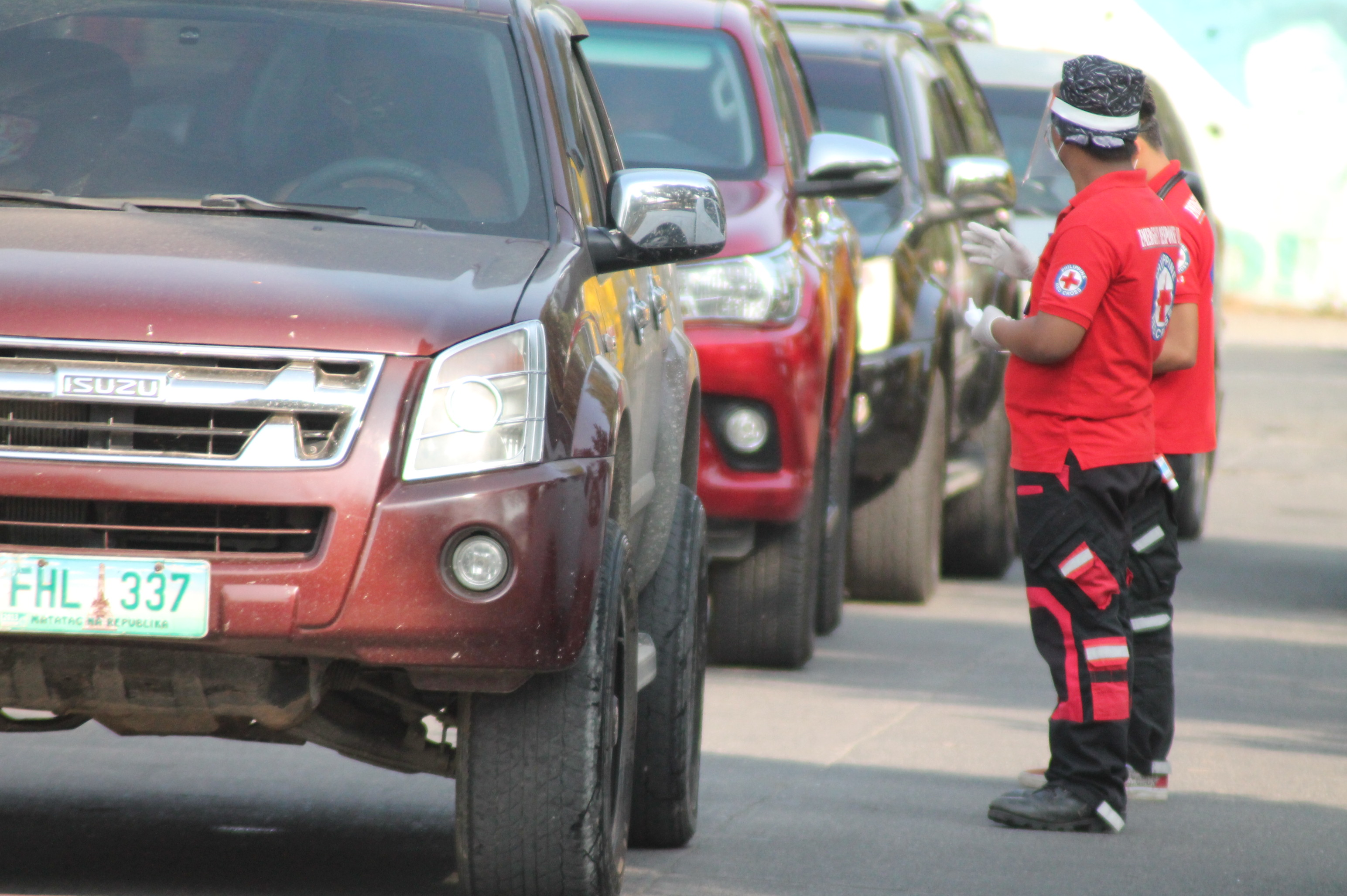 Members of the Phil. Red Cross conducts thermal scanning to commuters entering the Provincial Capitol in Bayombong, Nueva Vizcaya. The move is part of the health protocols being enforced to prevent the spread of COVID-19 infection in the province.